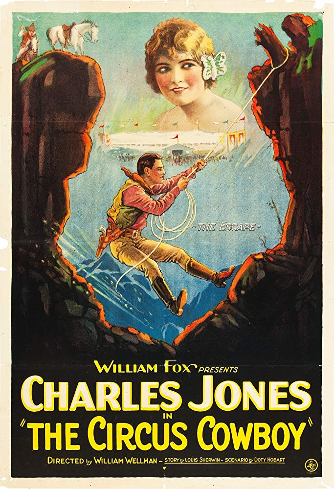 This is a poster for the American silent Western drama film The Circus Cowboy (1924).